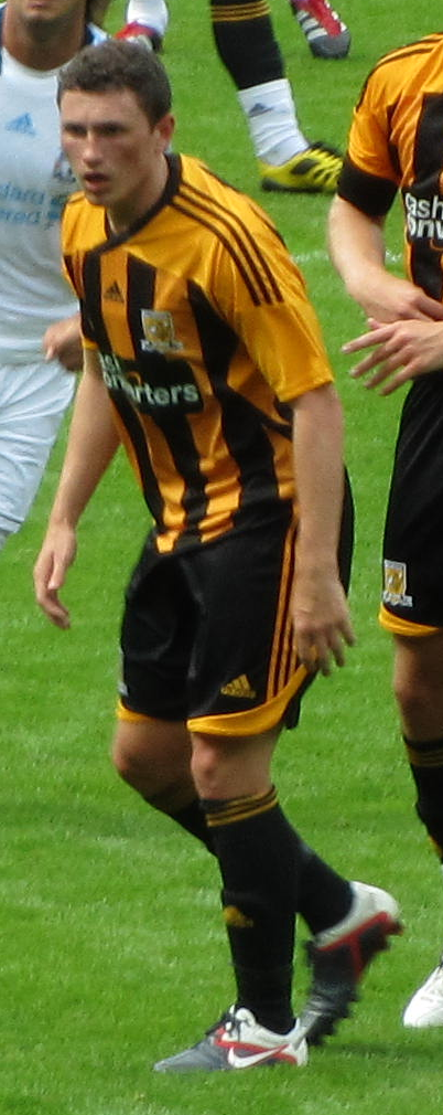 Corry Evans